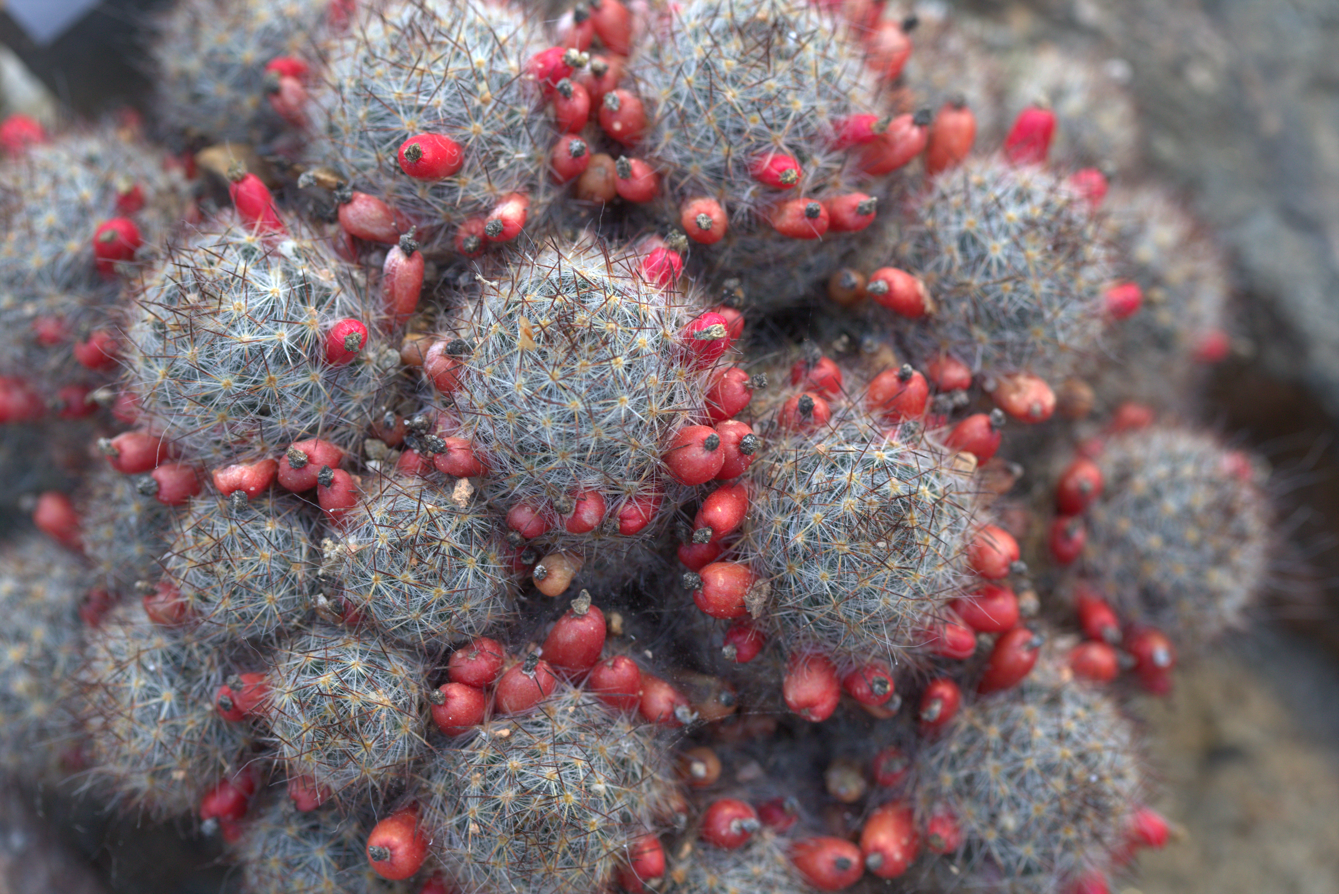 Mammillaria prolifera at Gothenburg Botanical Garden in 2015. Plant id: 1960-3841 s G -- Palermo